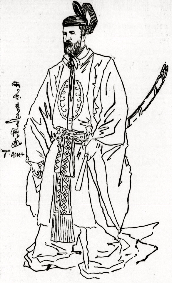 Drawing of Daniel Freeman (Los Angeles County) by artist Toshio Aoki.png